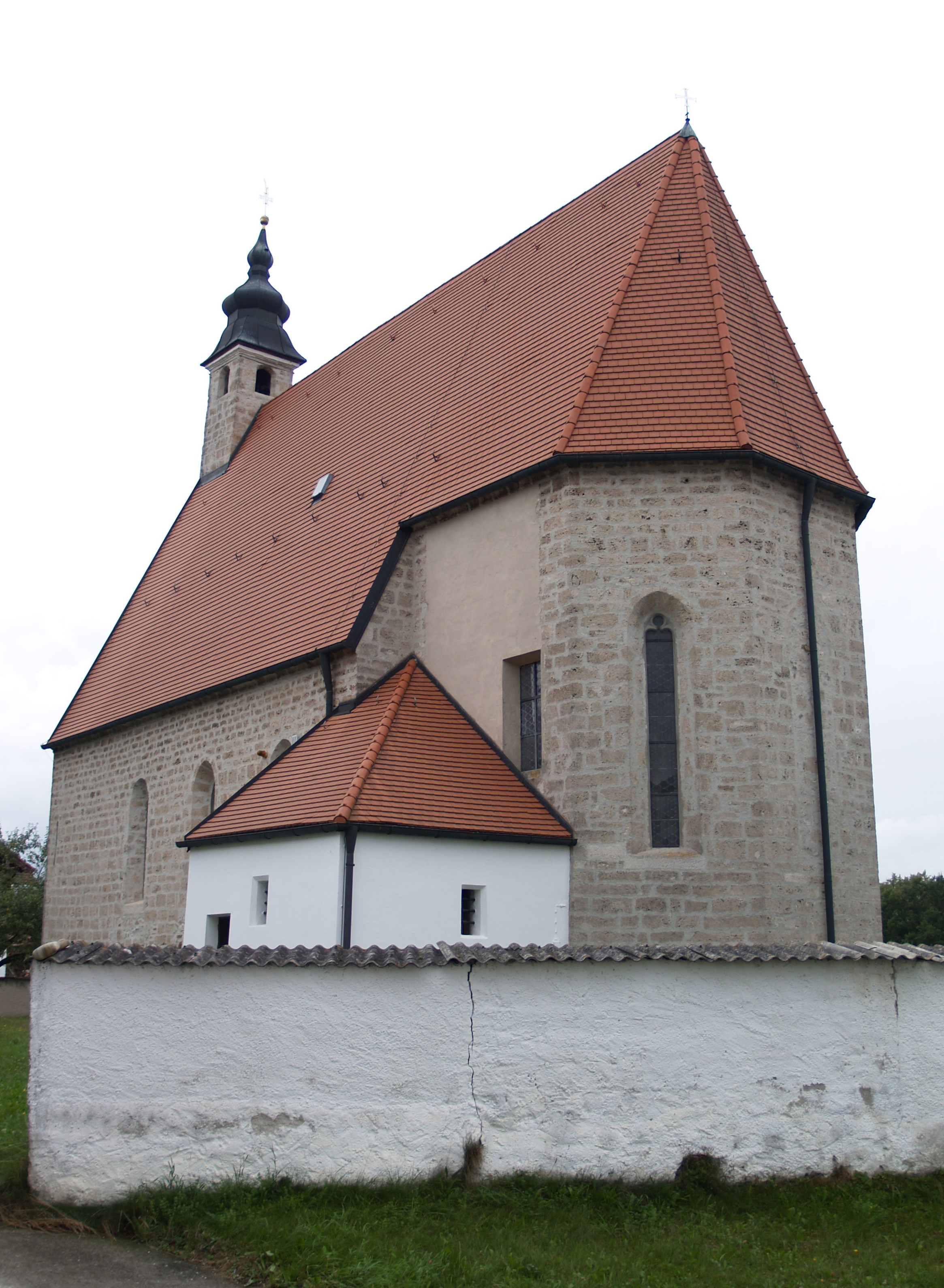 This is a photograph of an architectural monument.